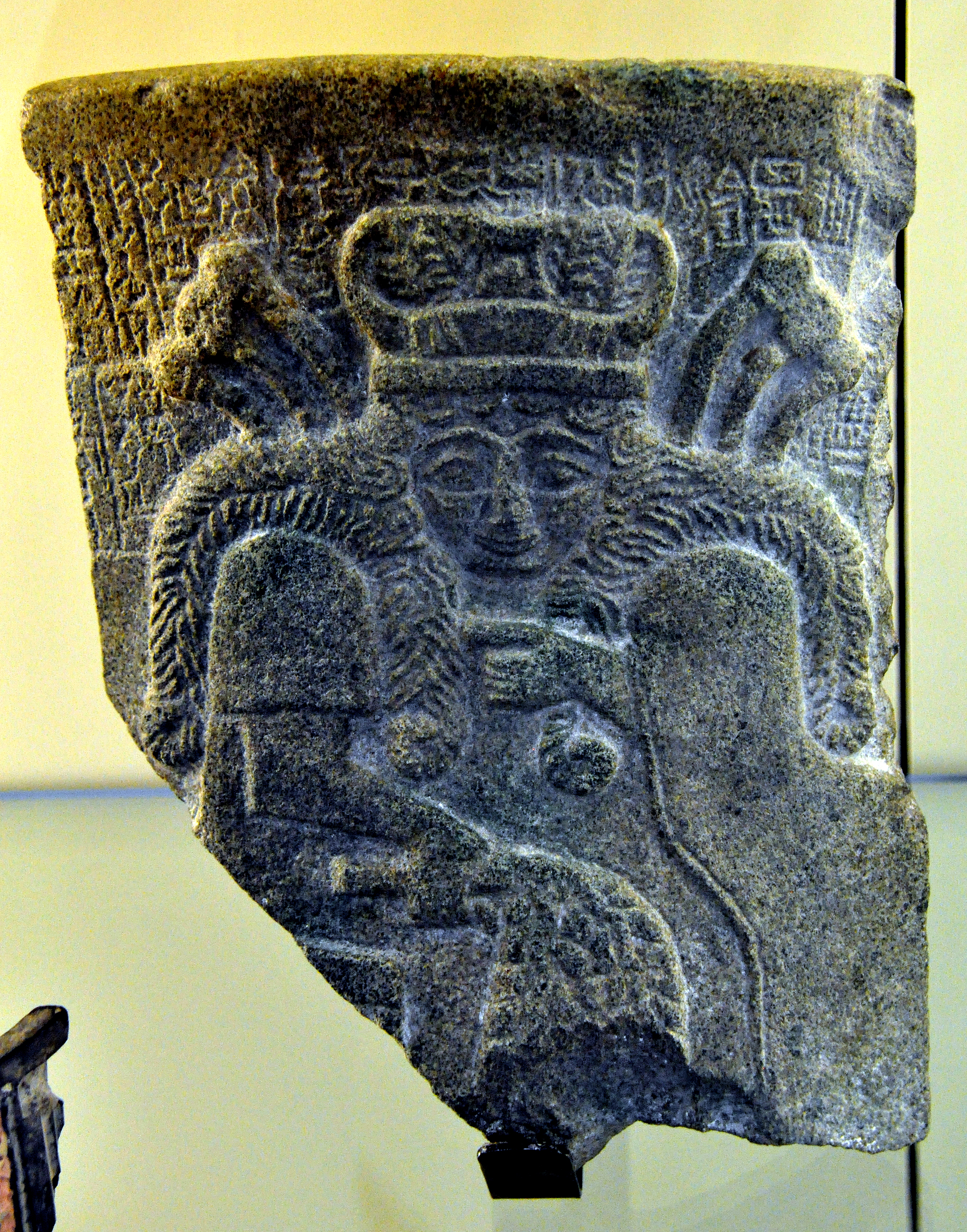 A Sumerian goddess is depicted on this fragment of a chlorite vase from Southern Mesopotamia, Iraq, c. 2430 BC. The name of Entemena, ruler of Lagash, is mentioned in the included cuneiform text. The goddess is depicted wearing a flounced robe and a horned crown over long flowing hair. From her shoulders rise maces or other weapons and in her right hand is a date cluster. This may represent Nisaba or Baba,[1] or Inanna[2]. The Pergamon Museum, Berlin, Germany.